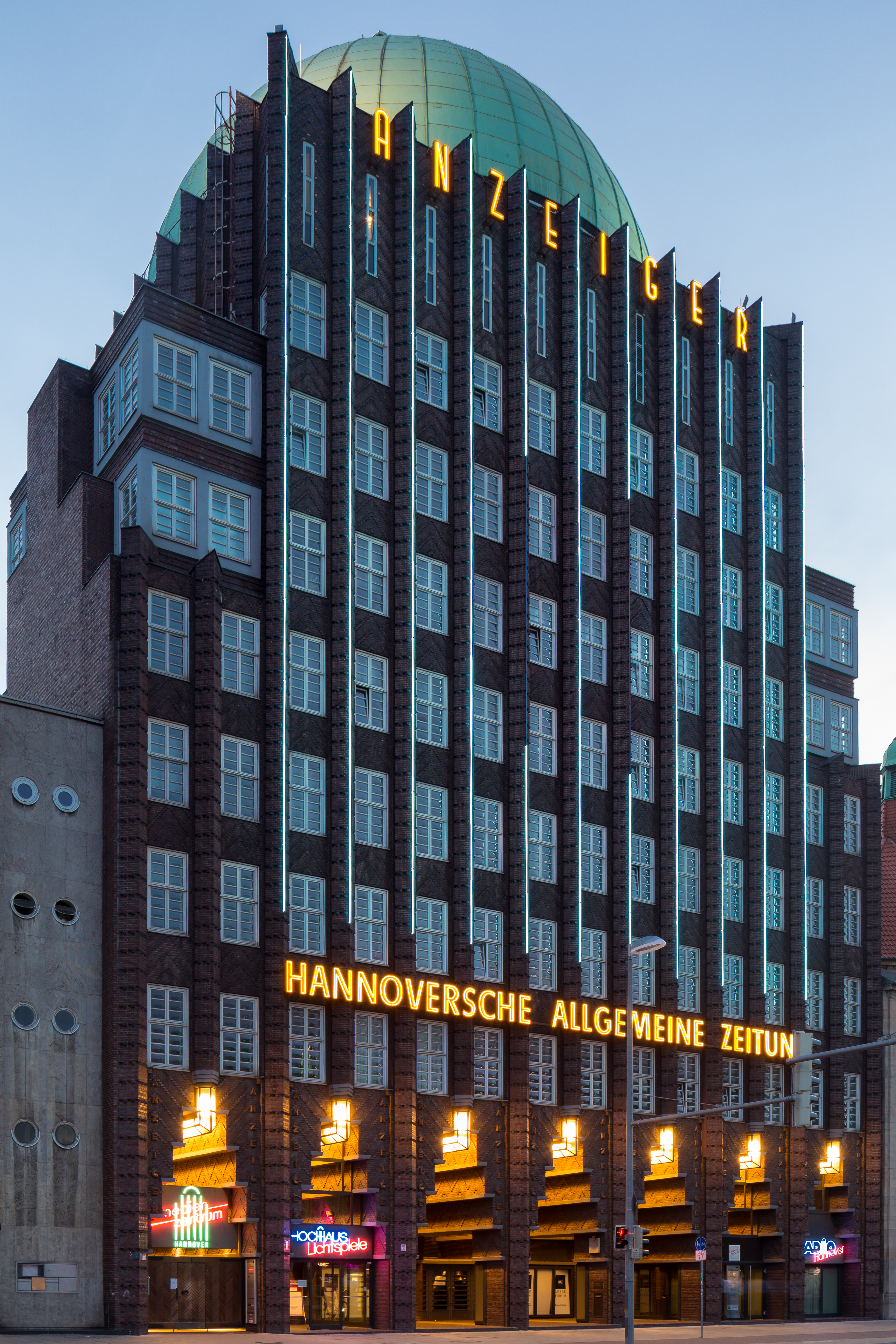 Anzeiger high-rise located at Goseriede road in Mitte quarter of Hannover, Germany.